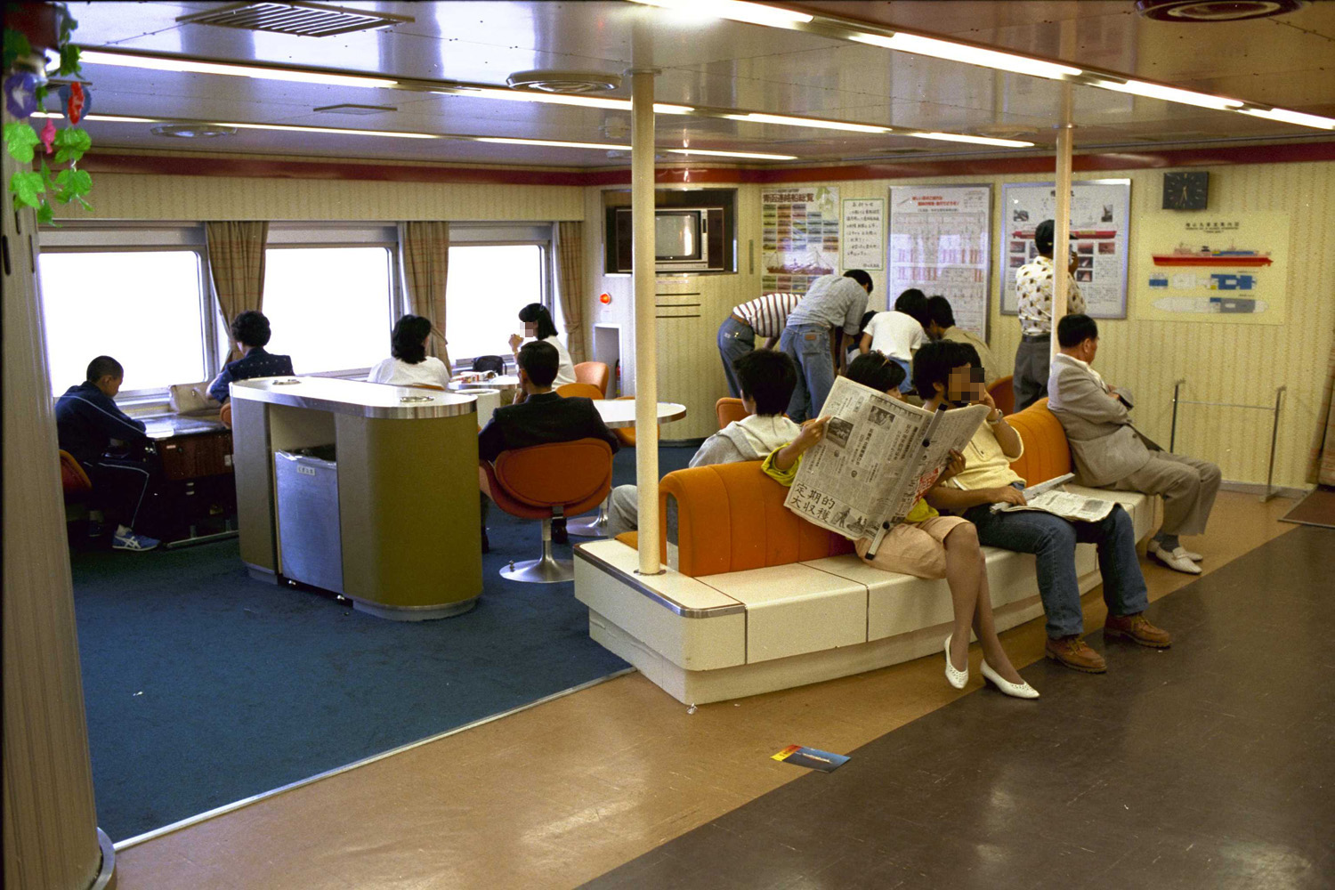 MS HIYAMA MARU2 Entrance Hall. Windows are Port side.